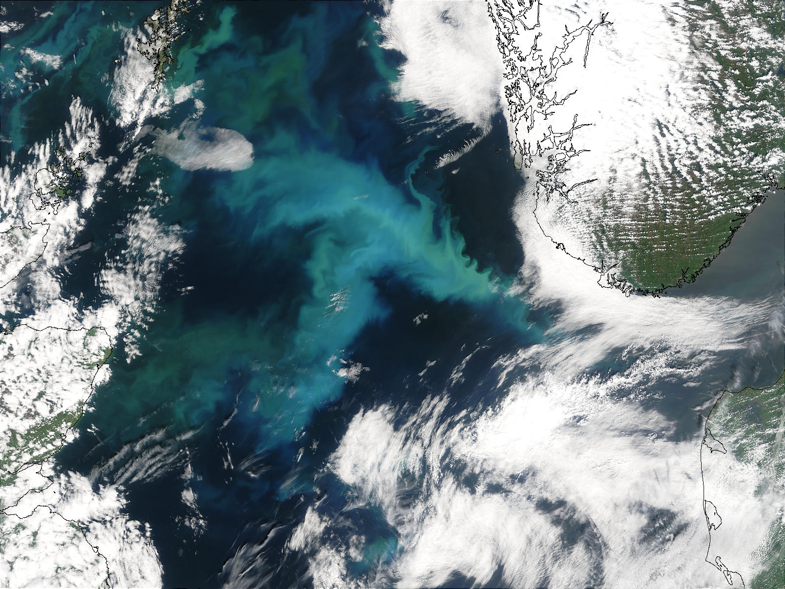 Rippling clouds of phytoplankton bloom off the south western side of Norway in the North Sea in this true-colour Terra MODIS image acquired on June 5, 2003. The bloom stretches out in three directions at once—off to the north west, down to the south west, and in a thinner stream to the south east—making it look a little like a pin-wheel. To the west of the pin-wheel is northern Scotland and England, while to the south-east is north-western Denmark.